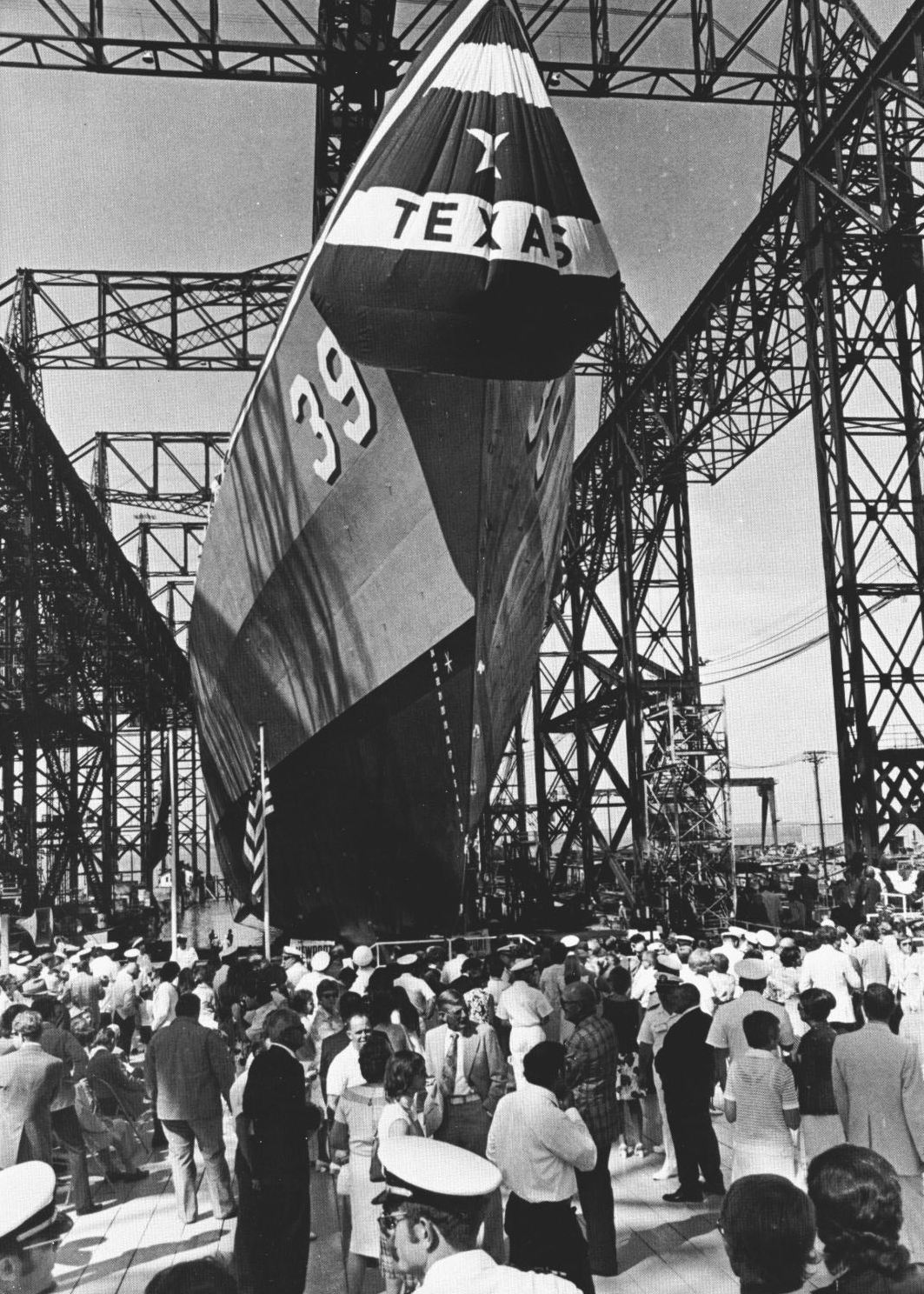 Launch of the U.S. Navy nuclear-powered guided missile cruiser USS Texas (CGN-39) at Newport News Shipbuilding and Drydock Company, Newport News, Virginia (USA), on 9 August 1975.